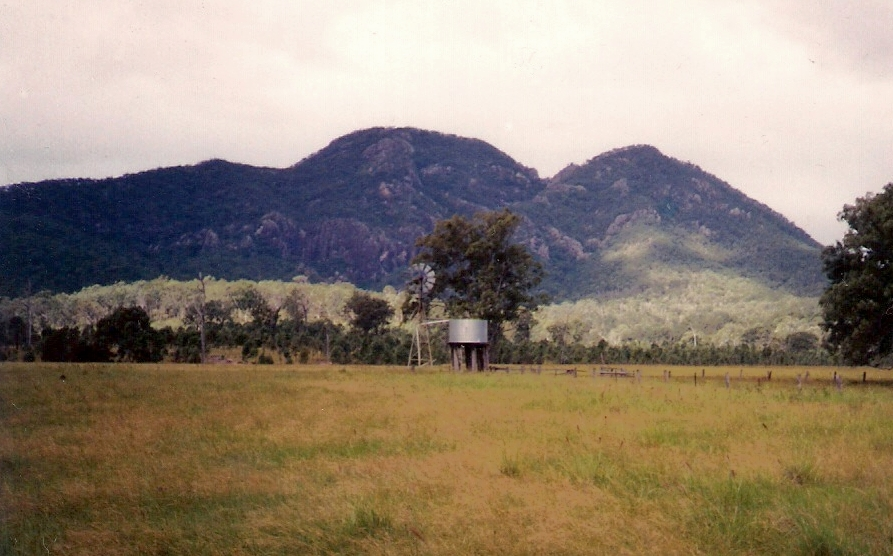 Photo of Mount May near Boonah in South East Queensland, Australia.